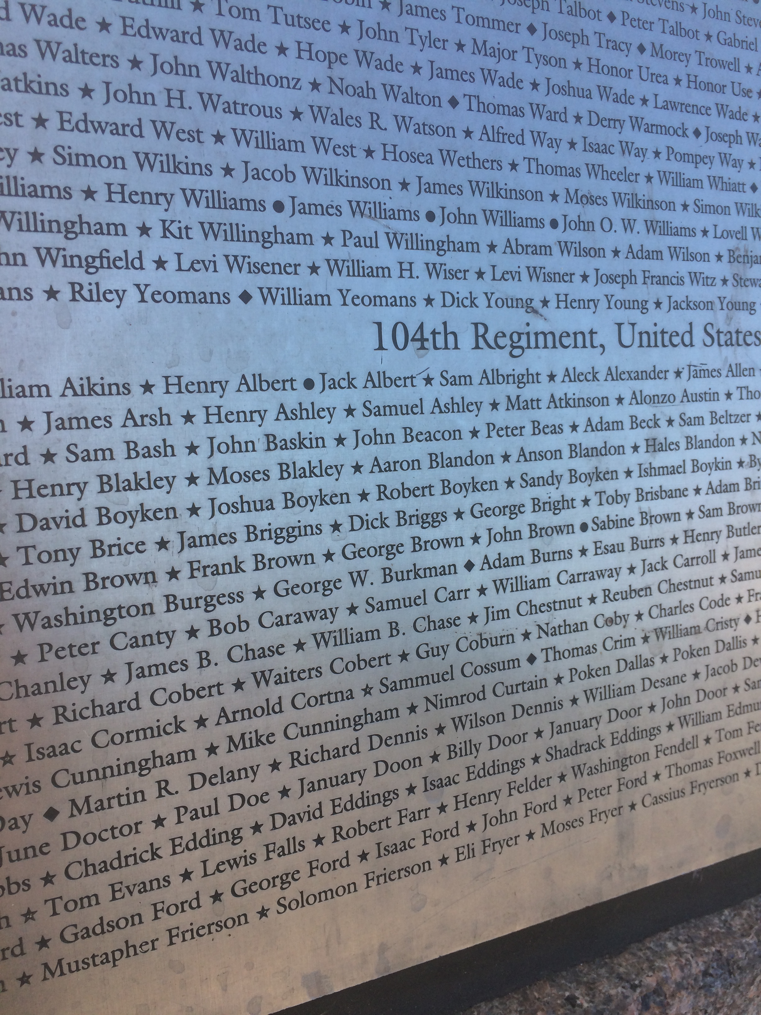 Names list from the African American Civil War Memorial in Washington, DC; profile of 104th Regiment, USCI; noting James B. Chase